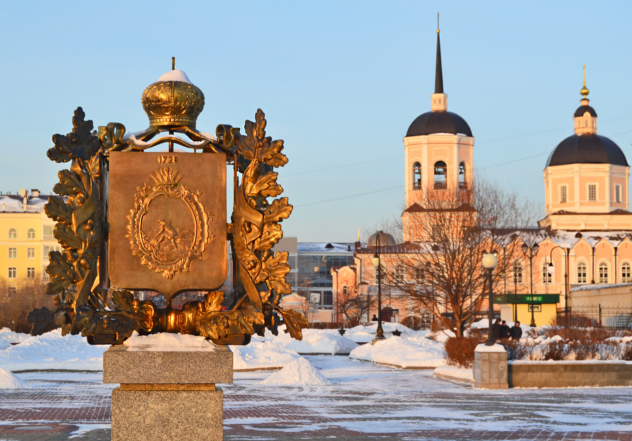 Monument is located on Lenin Square of Tomsk